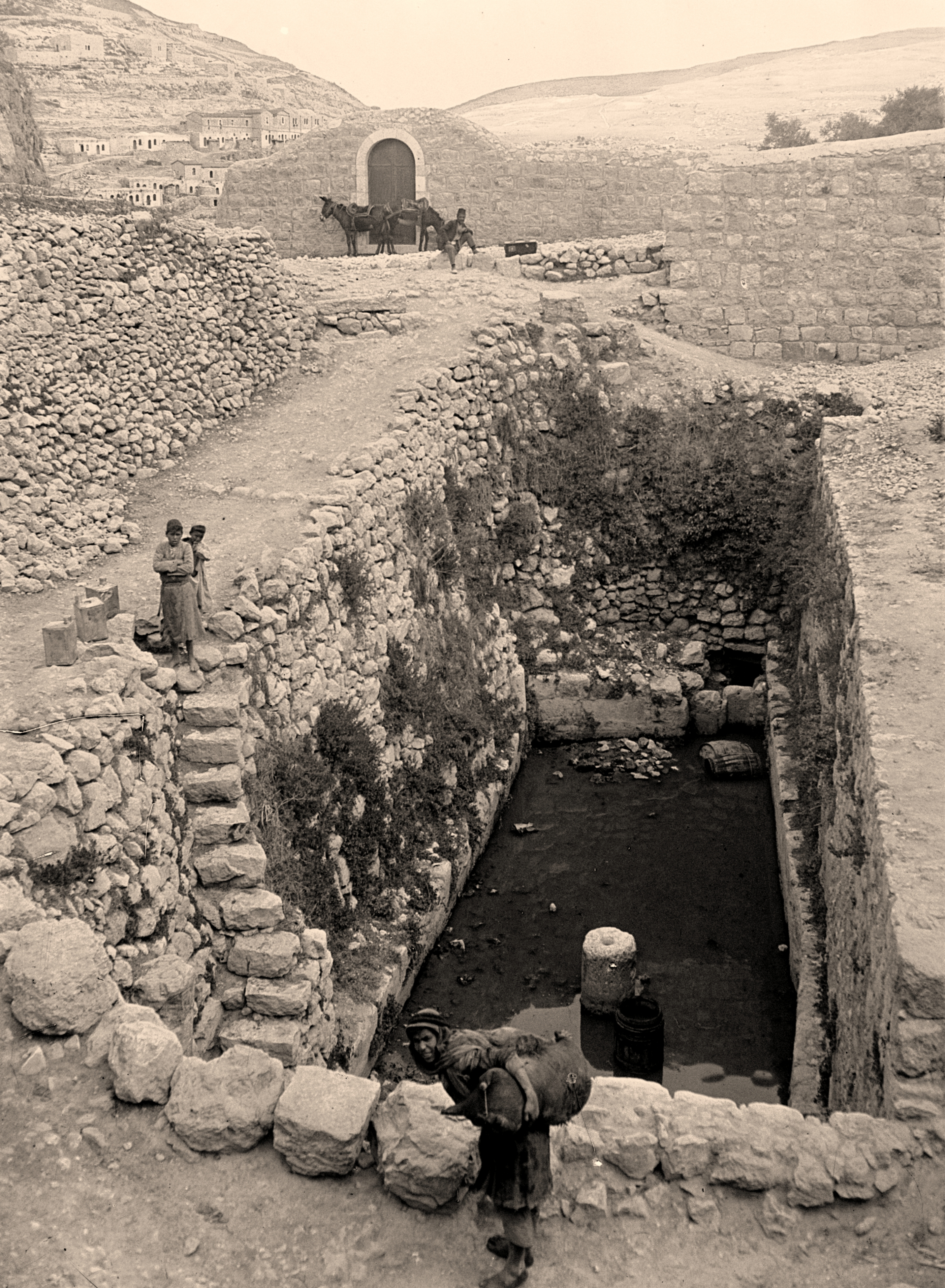 Pool of Siloam